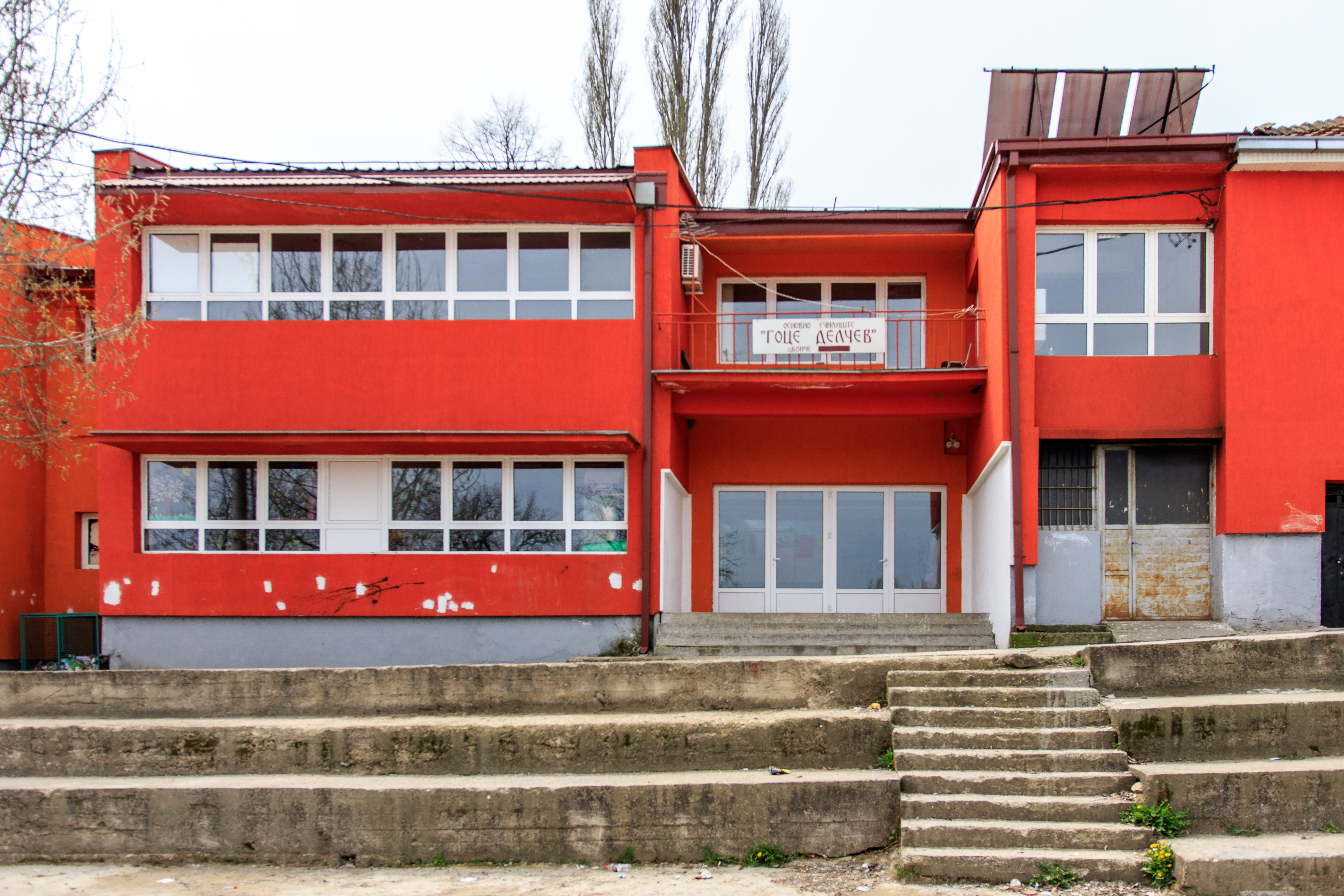 Primary school in the village Konče